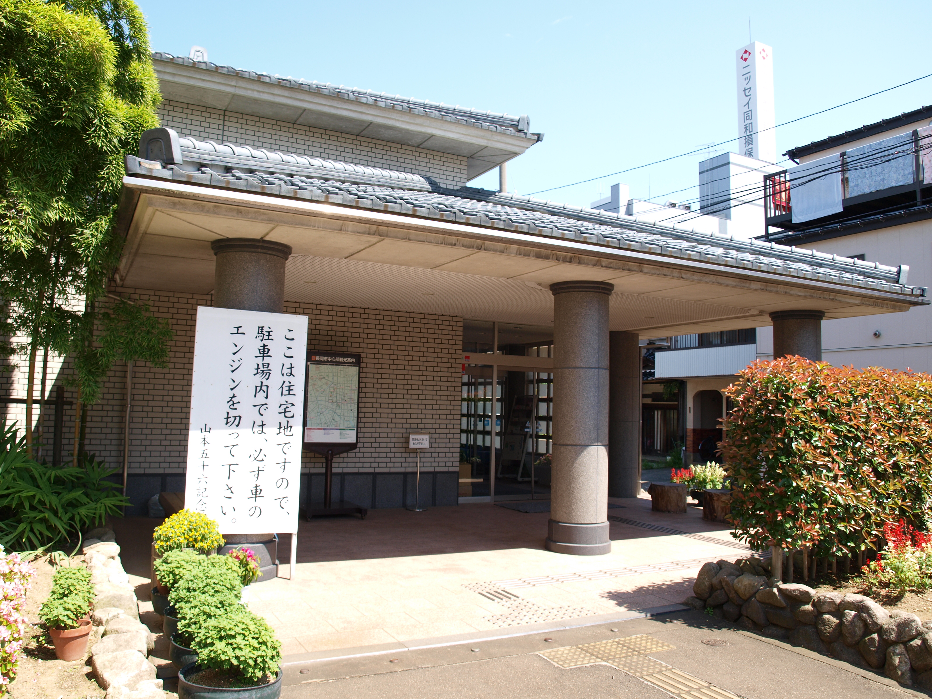 Yamamoto Isoroku Memorial Museum, Nagaoka City, Japan